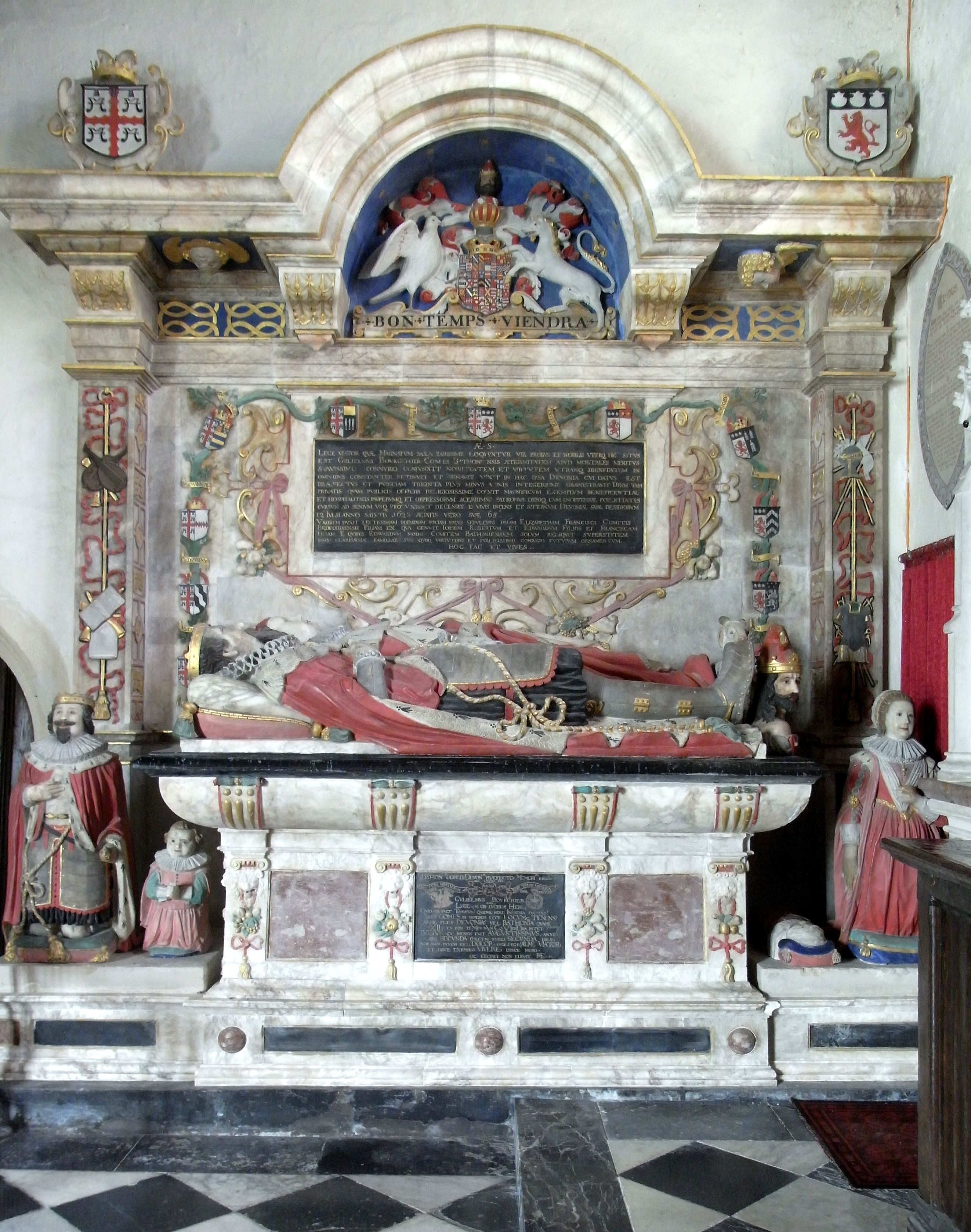 Monument to William Bourchier, 3rd Earl of Bath (1557-1623) and his wife Lady Elizabeth Russell, daughter of Francis Russell, 2nd Earl of Bedford, Lord Lieutenant of Devon; St Peter's Church, Tawstock, Devon, north wall of chancel. Restored in 1999 by Lawrence and Sue Kelland, mainly to replace the iron bands within the alabaster which threateded to rust and thereby expand to crack the stone. The iron was replaced with stainless steel and the monument was repainted. (Notice board in church with photographic narrative of restoration)